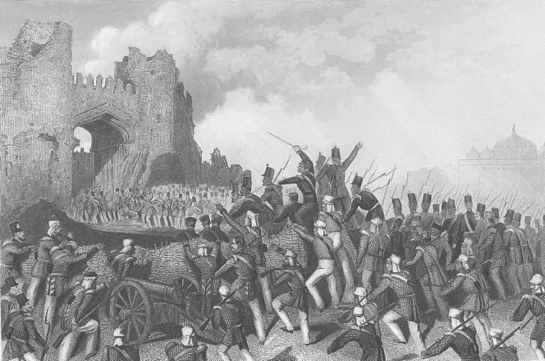 "The Capture of the Cashmere Gate, 14 Sept. 1857," a steel engraving, London Printing and Publishing Co., c.1858